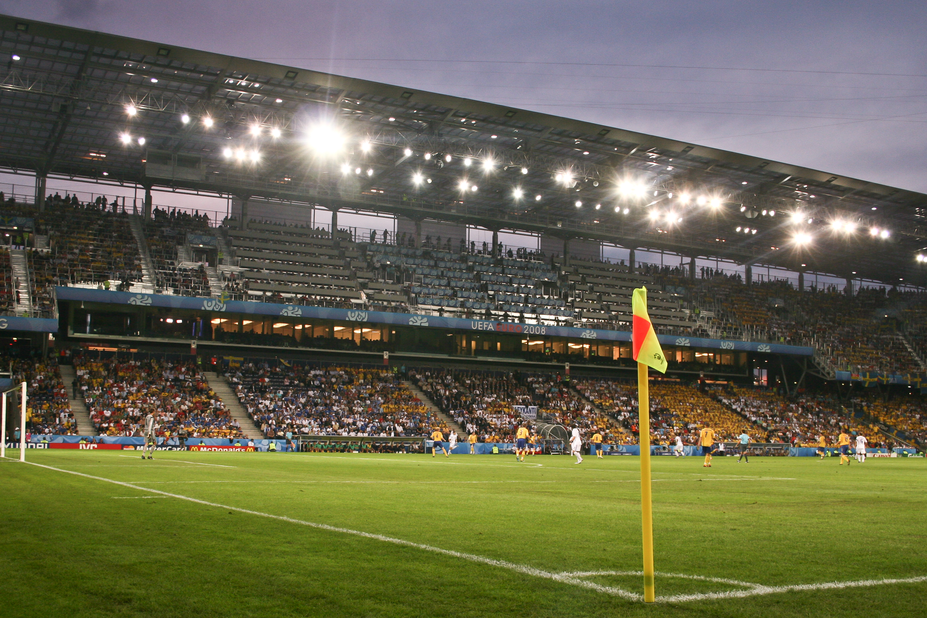 Greece vs Sweden in Salzburg during UEFA Euro 2008